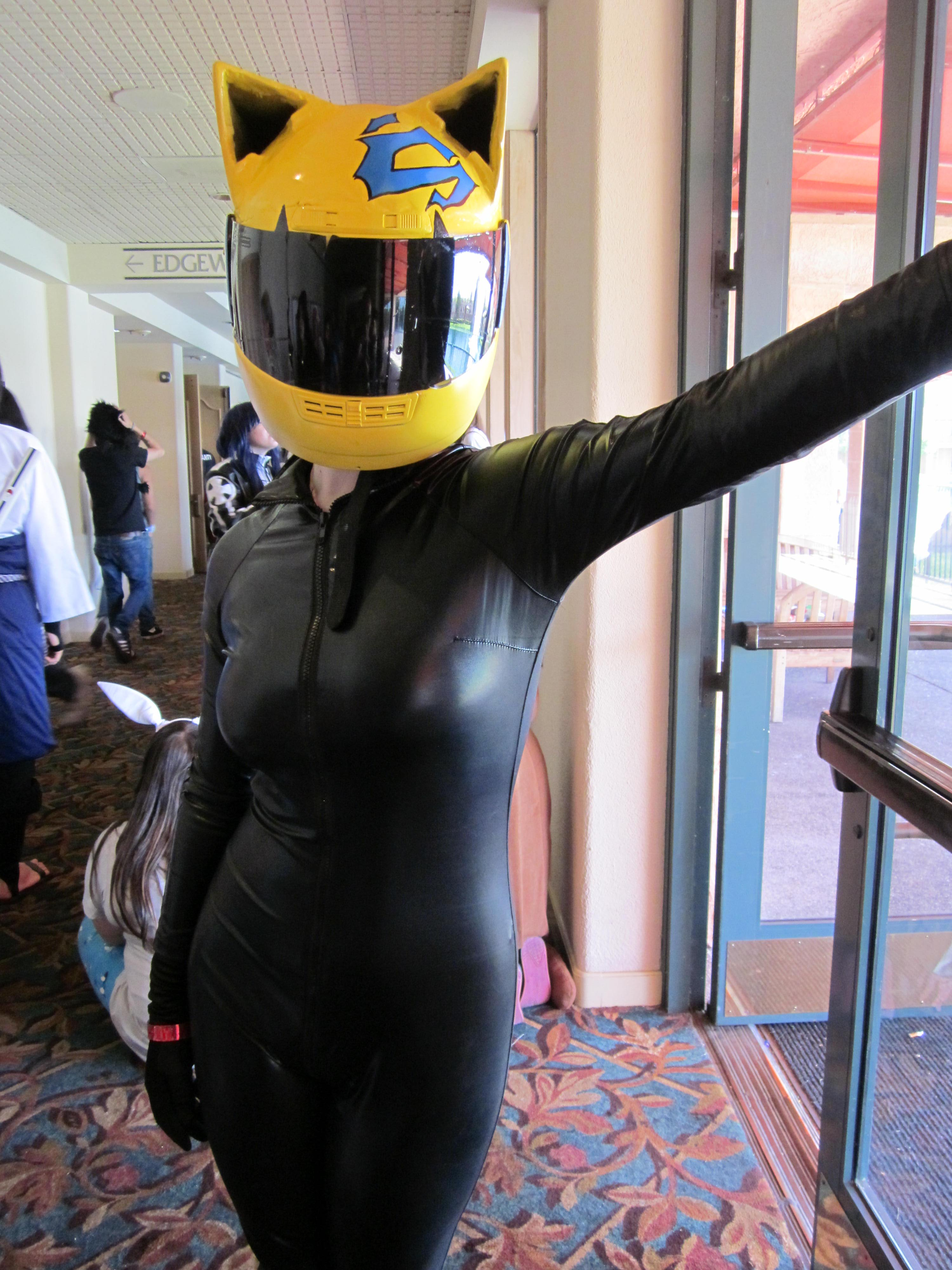 A cosplayer portraying Celty Sturluson from Durarara!! at Sac-Anime in Sacramento, California.